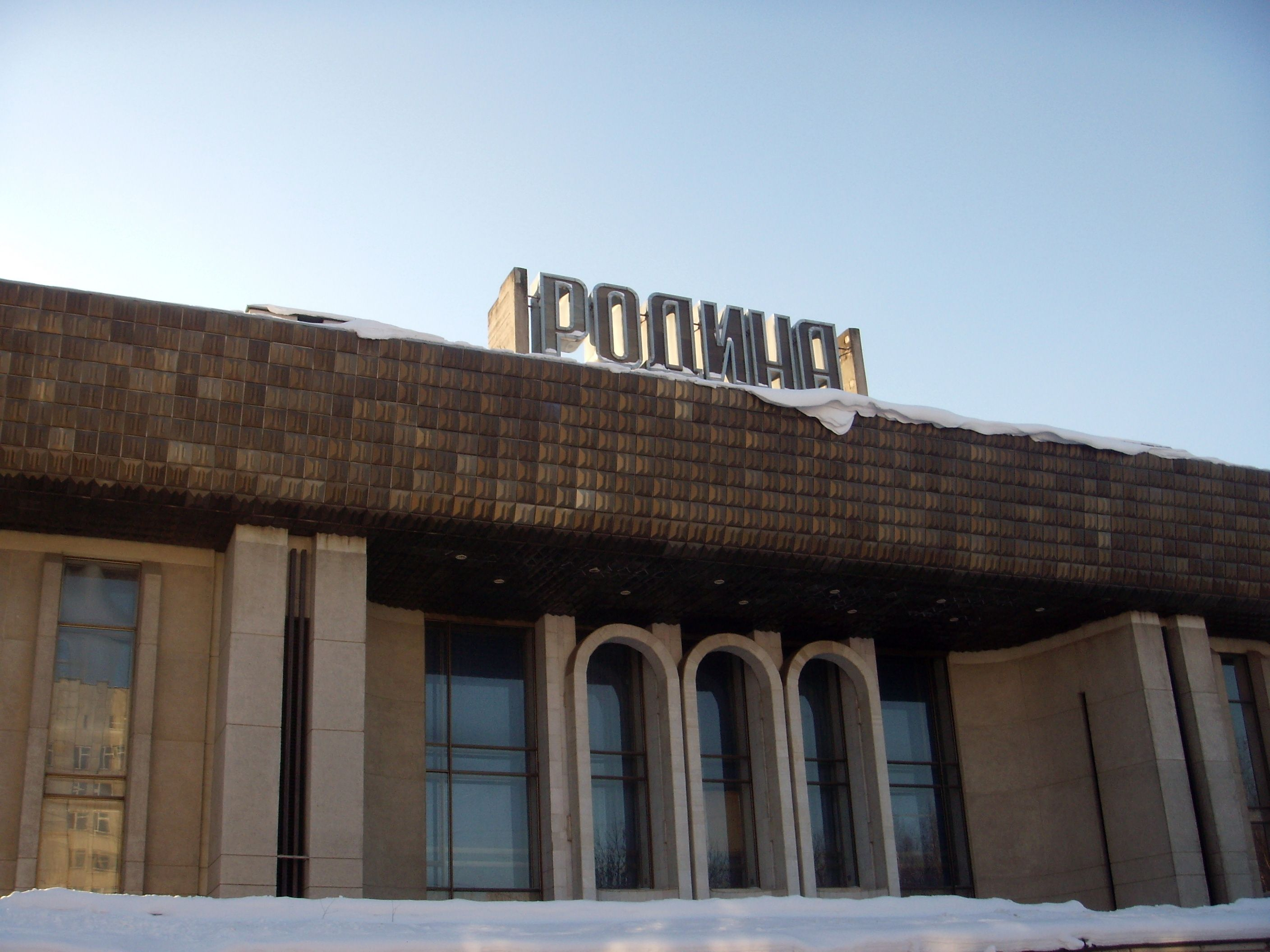 Signboard at the house of culture «Rodina» ("Homeland") of Lepse factory